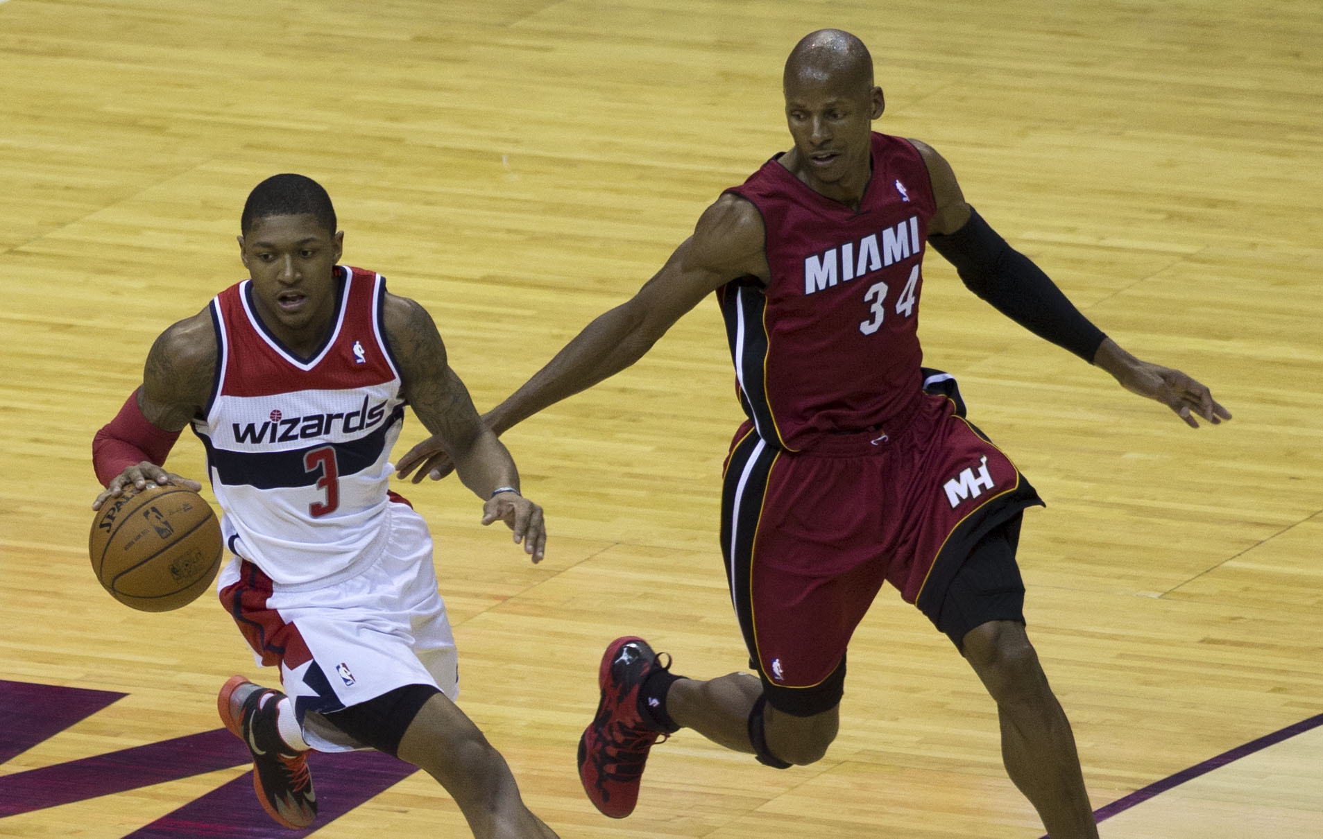 Heat at Wizards 1/15/14